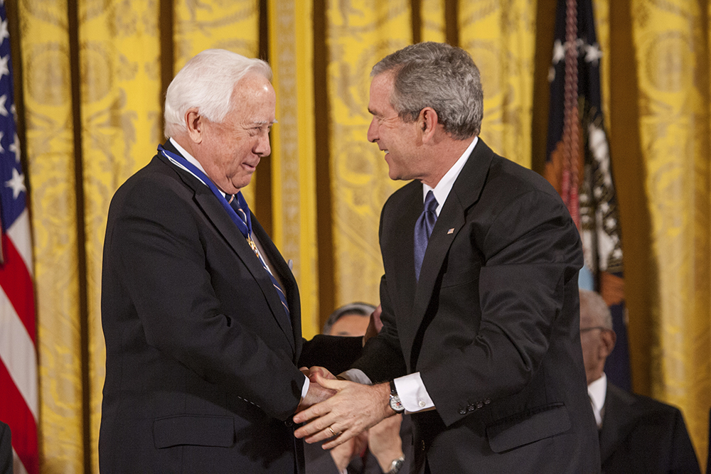 President George W. Bush Presents David McCullough with the Presidential Medal of Freedom in the East Room of the White House, 12/15/2006